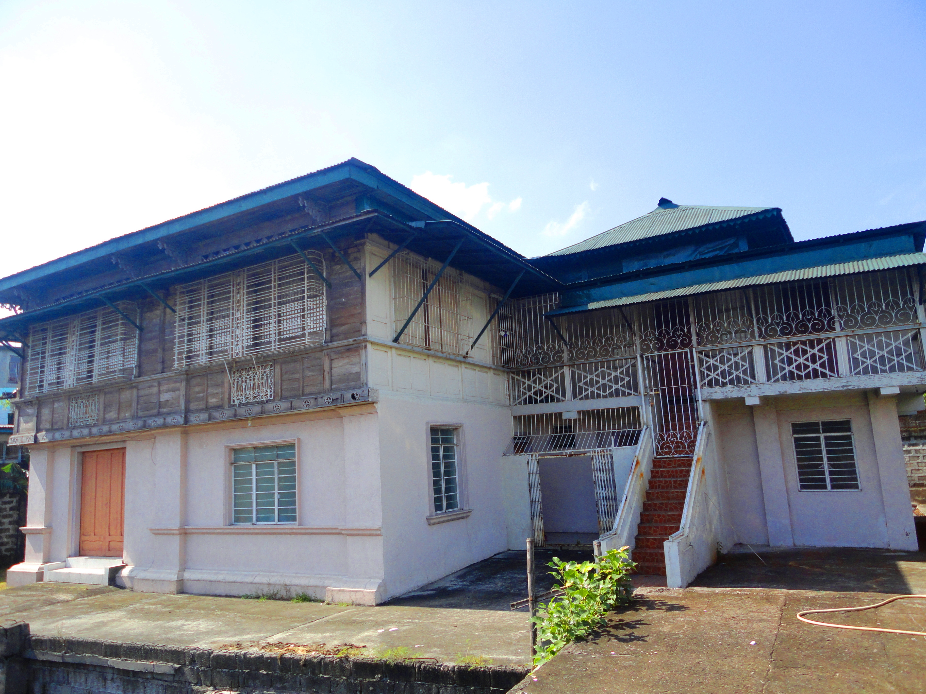 interior